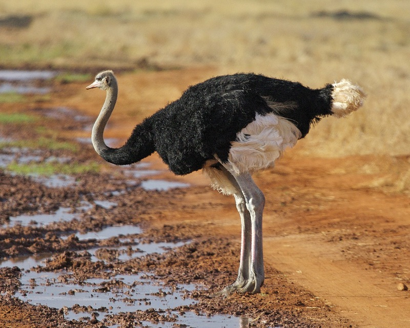 North African Ostrich / Masai Ostrich, - male non-breeding Struthio camelus ssp Struthio camelus massaicus Swahili: Mbuni Masai Tsavo East, Kenya August 26, 2008 More widespread race masasaicus (above) lacks the white collar at the base of the neck of the nominate race 690V0225